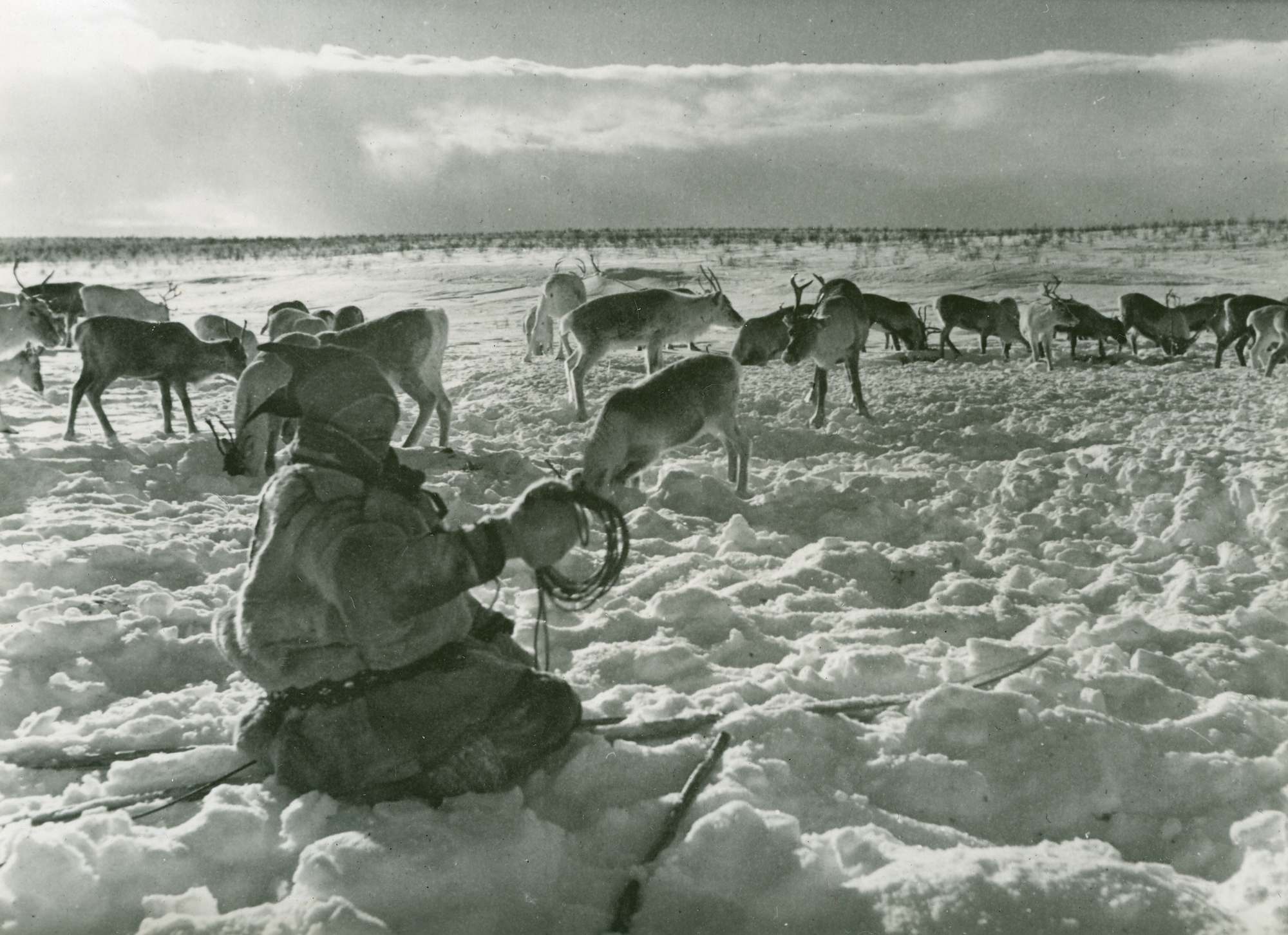 Meyer, Elisabeth Sami with herd of reindeer at their winter feeding ground. This is Finnmarksvidda - Finnmark highland, Norway's largest plateau, with an area greater than 22,000 km². Photograph taken in early 20th century NMFF.002541-3